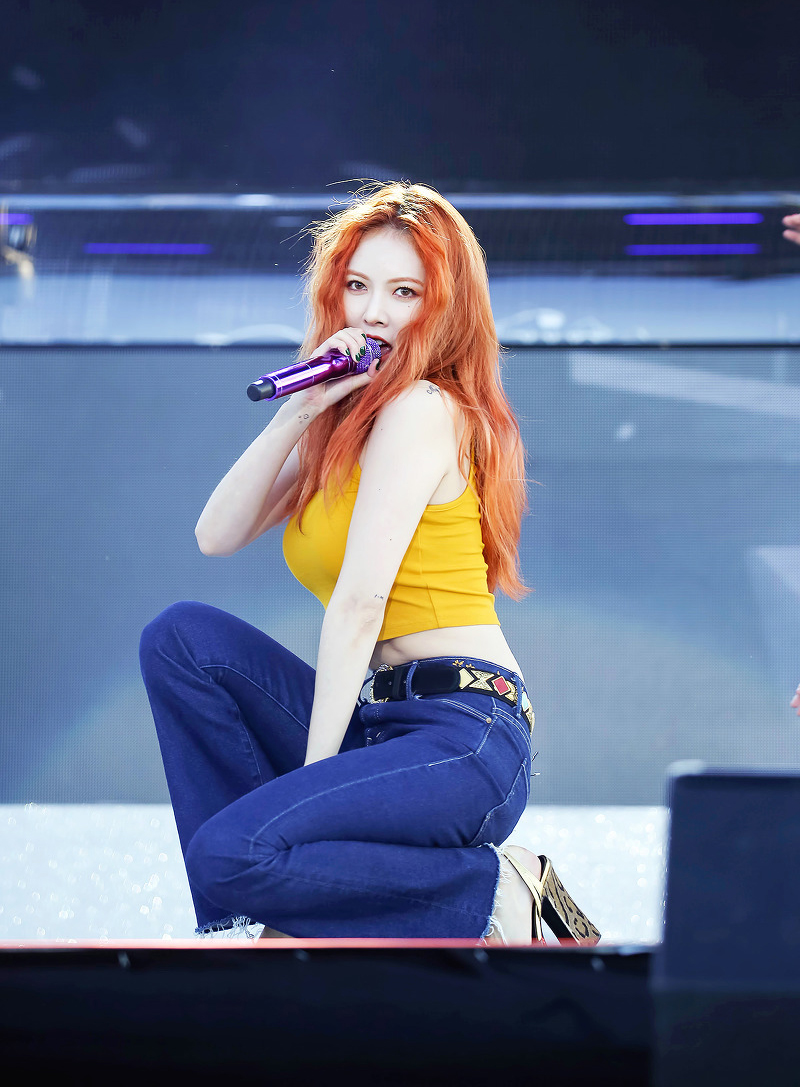 HyunA at Dream Station on May 27, 2017